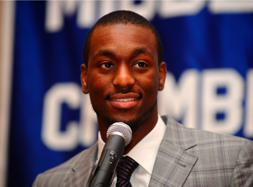 Steve McLaughlin. Special to the Press 07.12.11 Former UCONN basketball player Kemba Walker listens to a question from the audience Tuesday morning after speaking before a sold out Middlesex Chamber of Commerce breakfast at the Crown Plaza in Cromwell, CT.